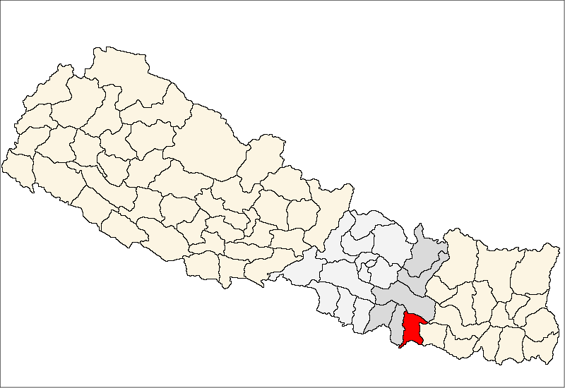 FrenchCarte de localisation dudistrict de Dhanusa(wp-FR),au Népal (wp-FR).EnglishLocation map ofDhanusa District(wp-EN),in Nepal (wp-EN).